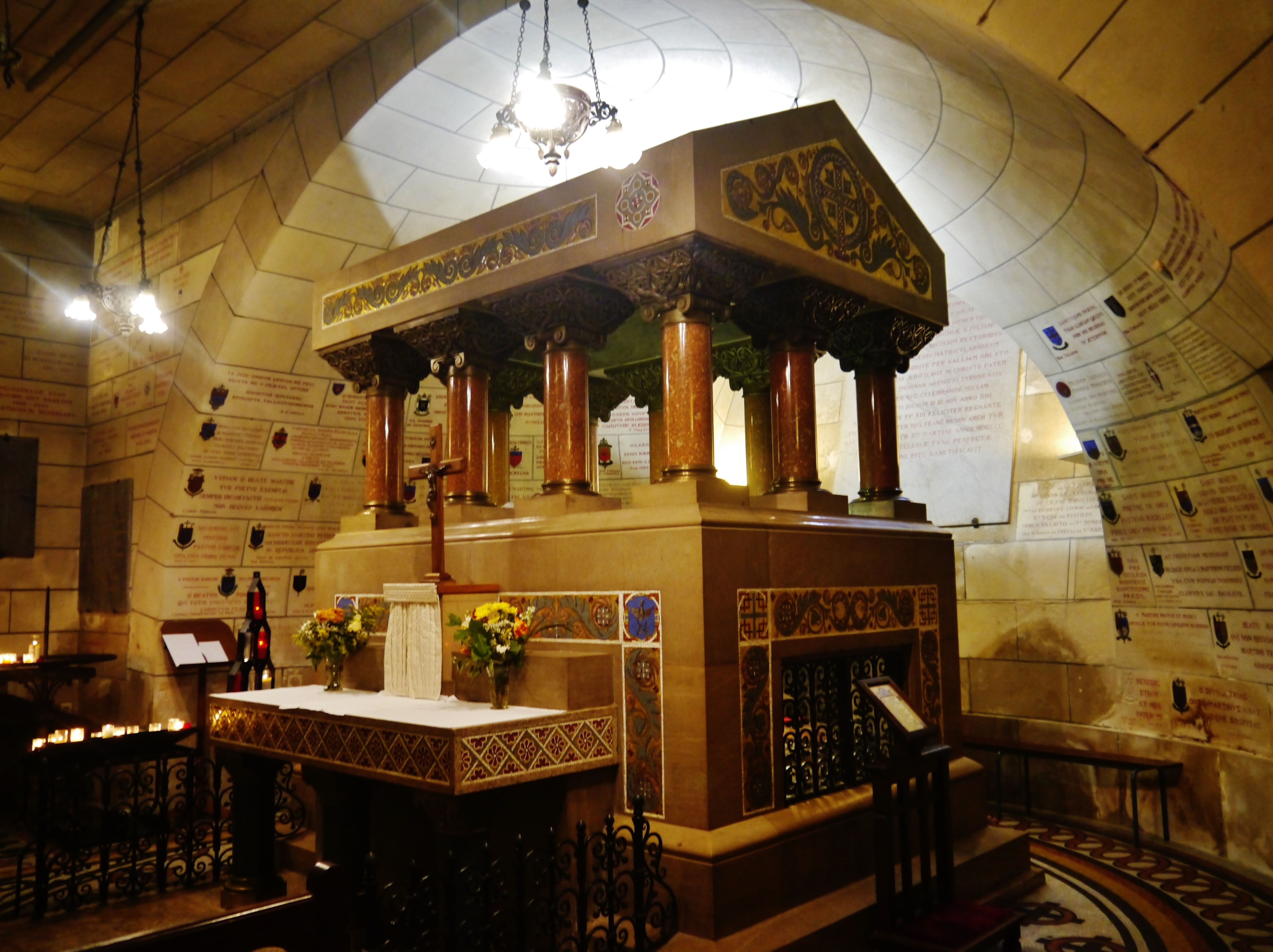 Burial of Saint Martin of Tours at the Crypt of the Basilica of St. Martin of Tours, Tours, Departement of Indre-et-Loire, Region of Centre-Loire Valley, France